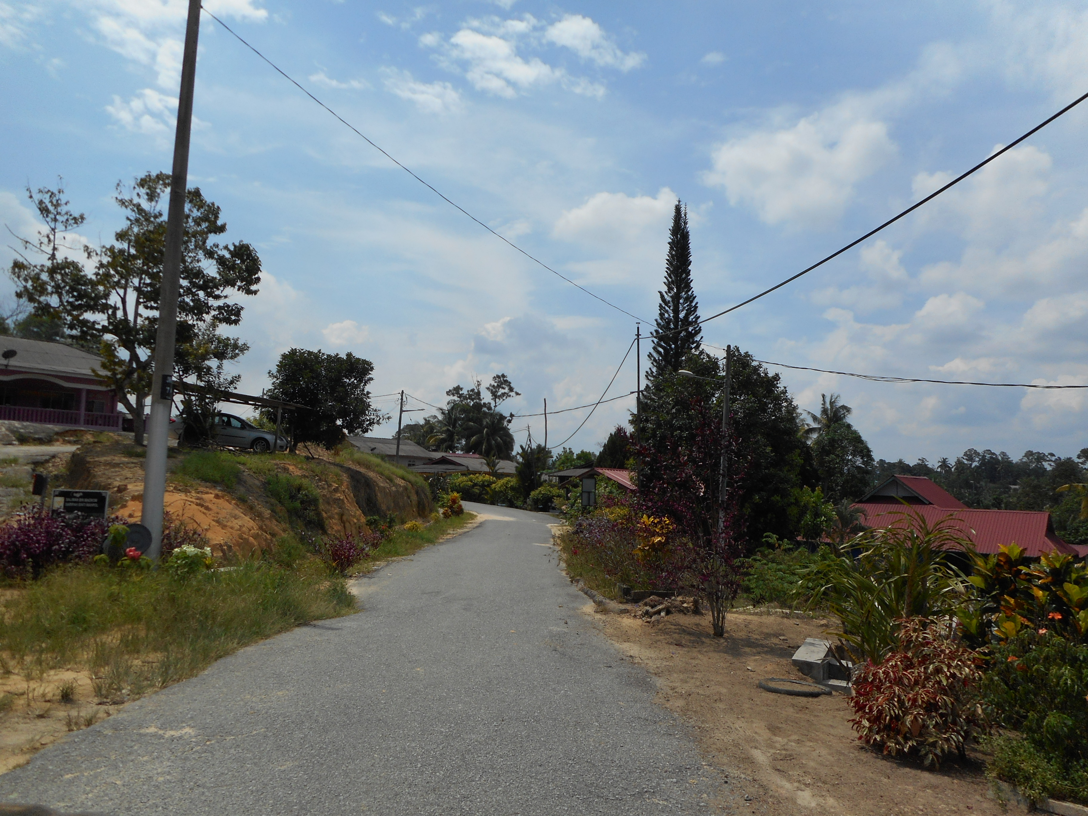 FELDA Penggeli Timur, Kota Tinggi, Johor, Malaysia